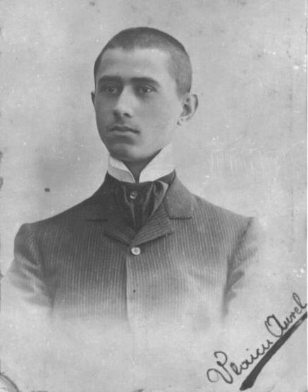 Young Aurel Vlaicu